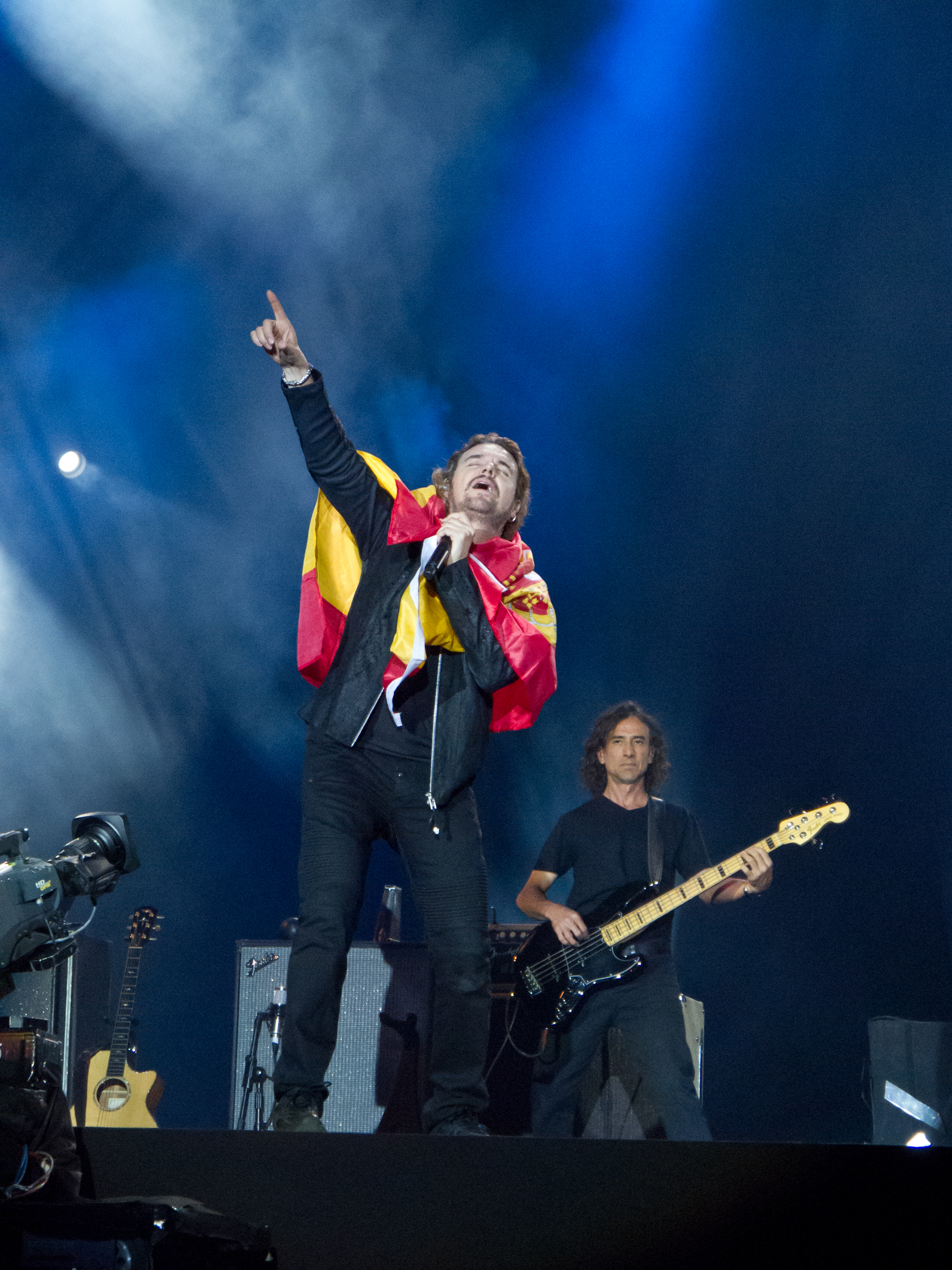 Maná in concert in Rock in Rio in Madrid in 2012.